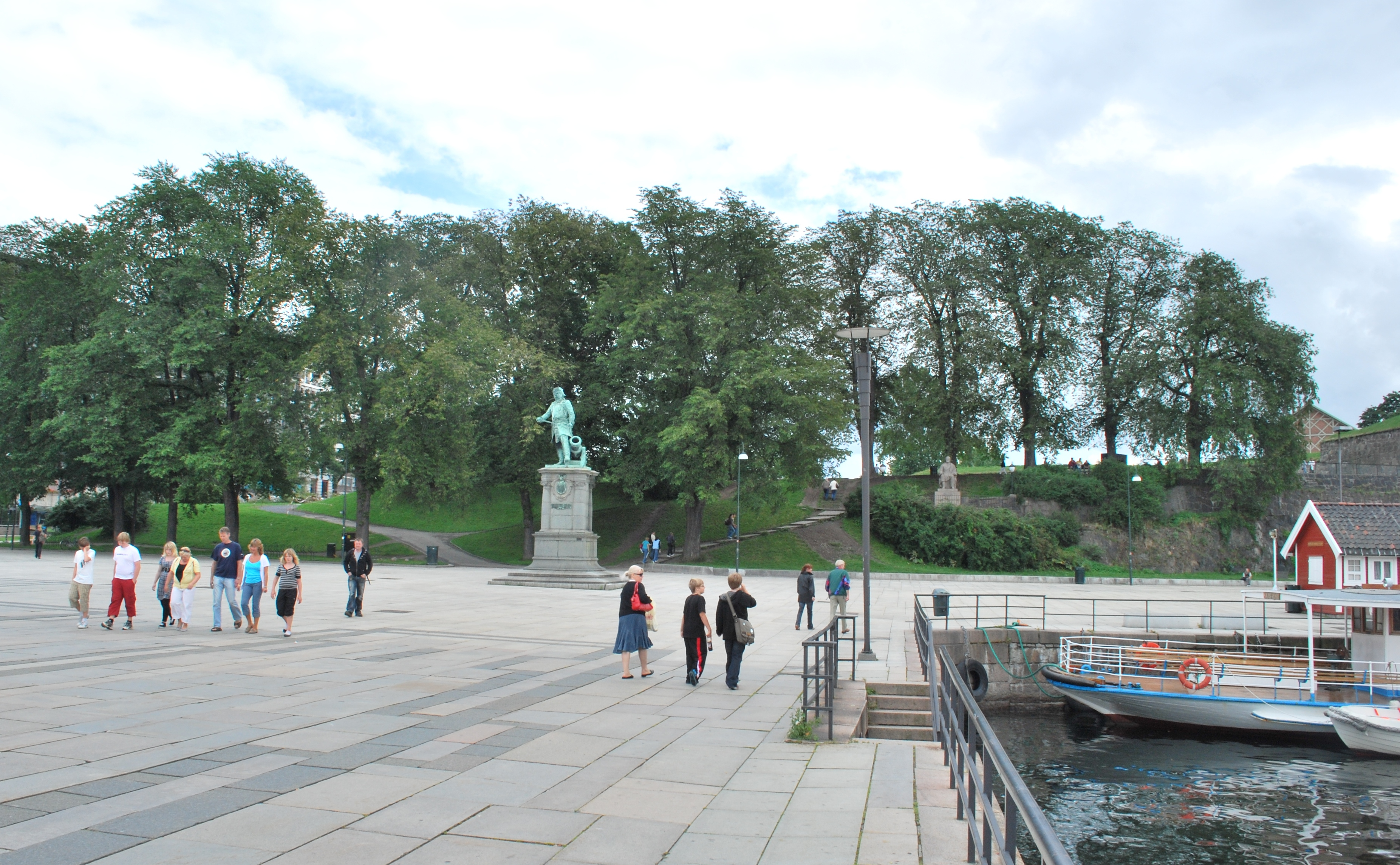 Rådhusplassen (Town Hall Square), Oslo, seen towards Akershus Castle